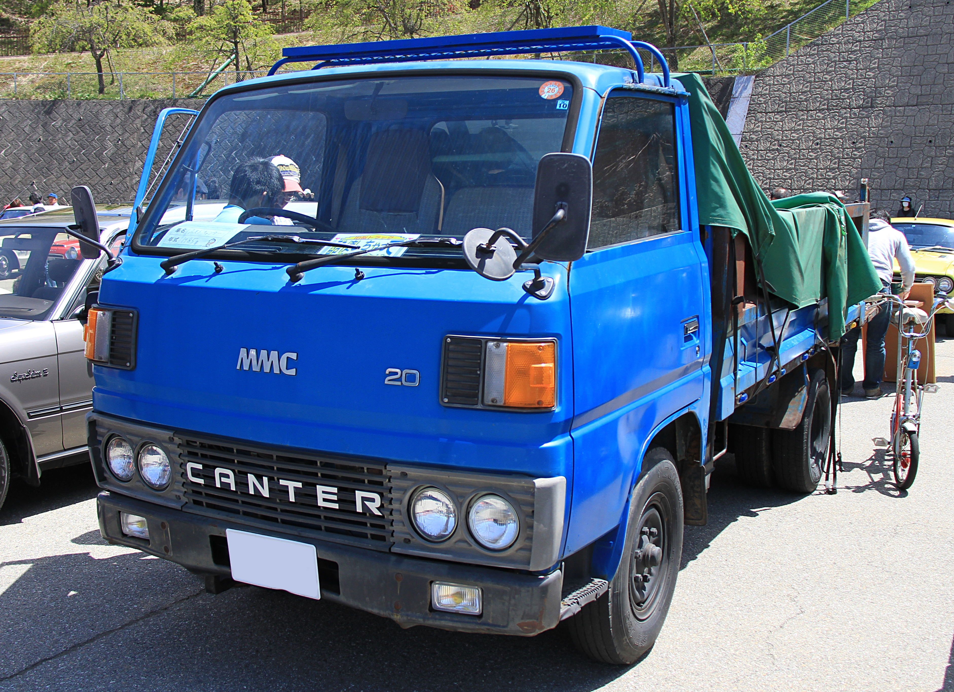 Mitsibishi Canter